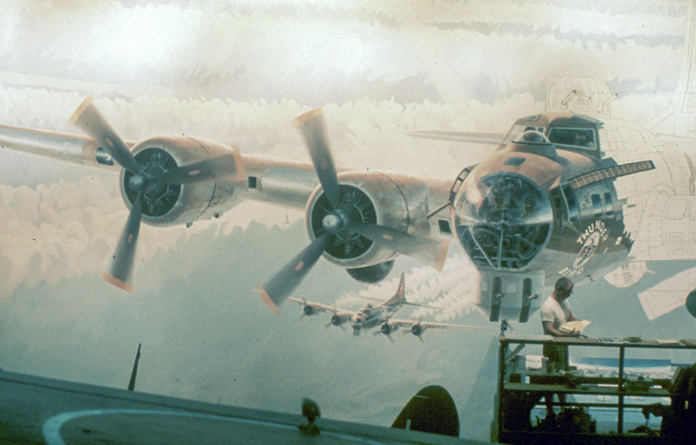 Keith Ferris painting the mural "Fortresses Under Fire", depicting the 70th Mission of Thunderbird - 15 August 1944, at the Smithsonian National Air and Space Museum.